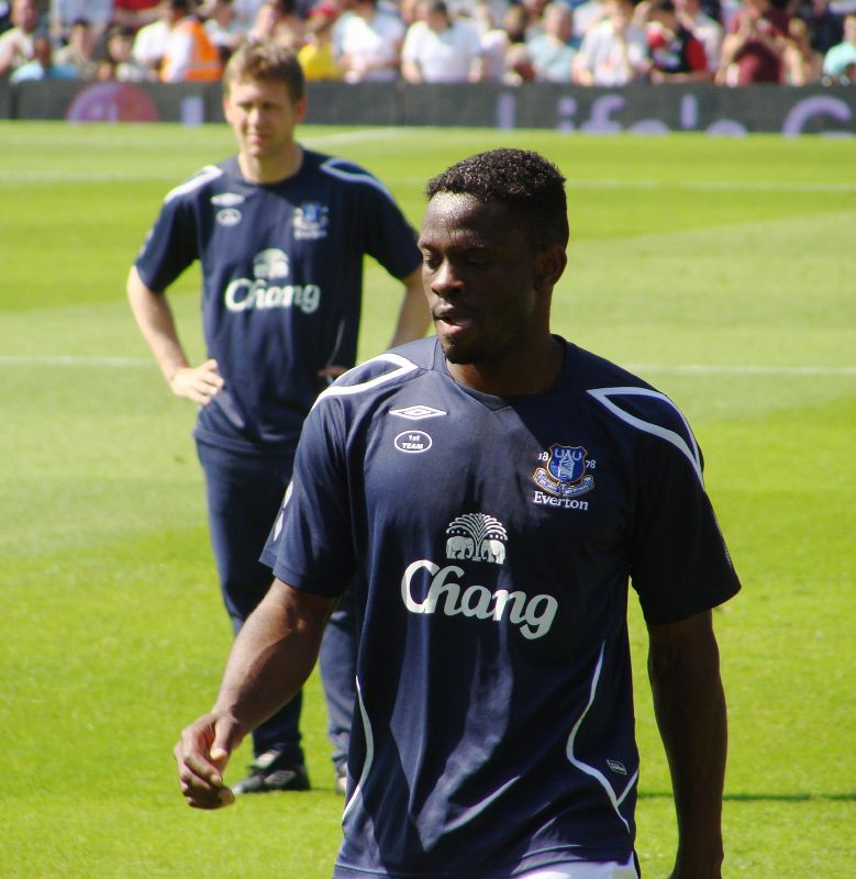 Everton player Louis Saha, before a match against his former team Fulham